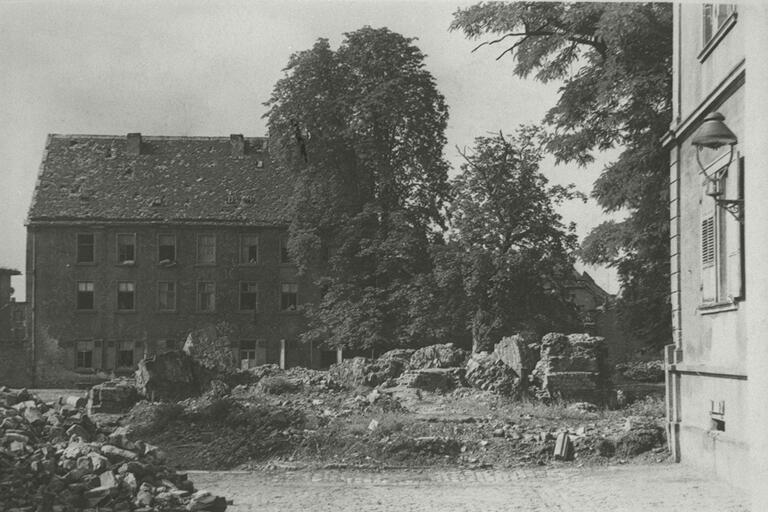 Worms Synagogue; Rubble.